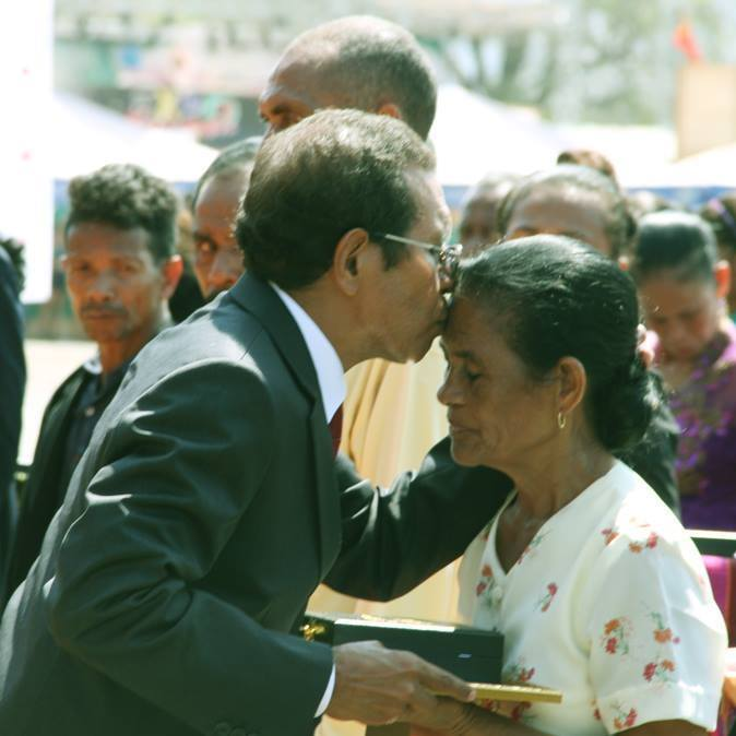 Pascoela de Araujo Duarte receives the Ordem de Timor-Leste, on behalf of her husband, Matias Gouveia Duarte, from the President of Timor-Leste, Taur Matan Ruak